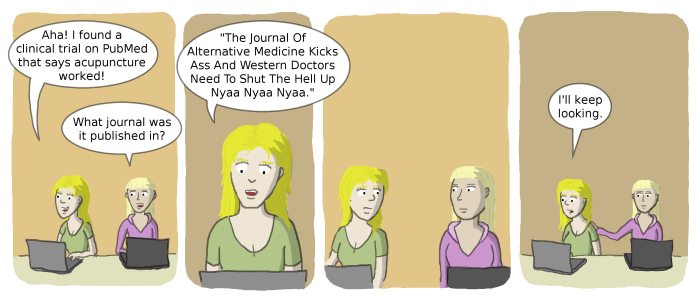 Comic on the quality of different academic publications